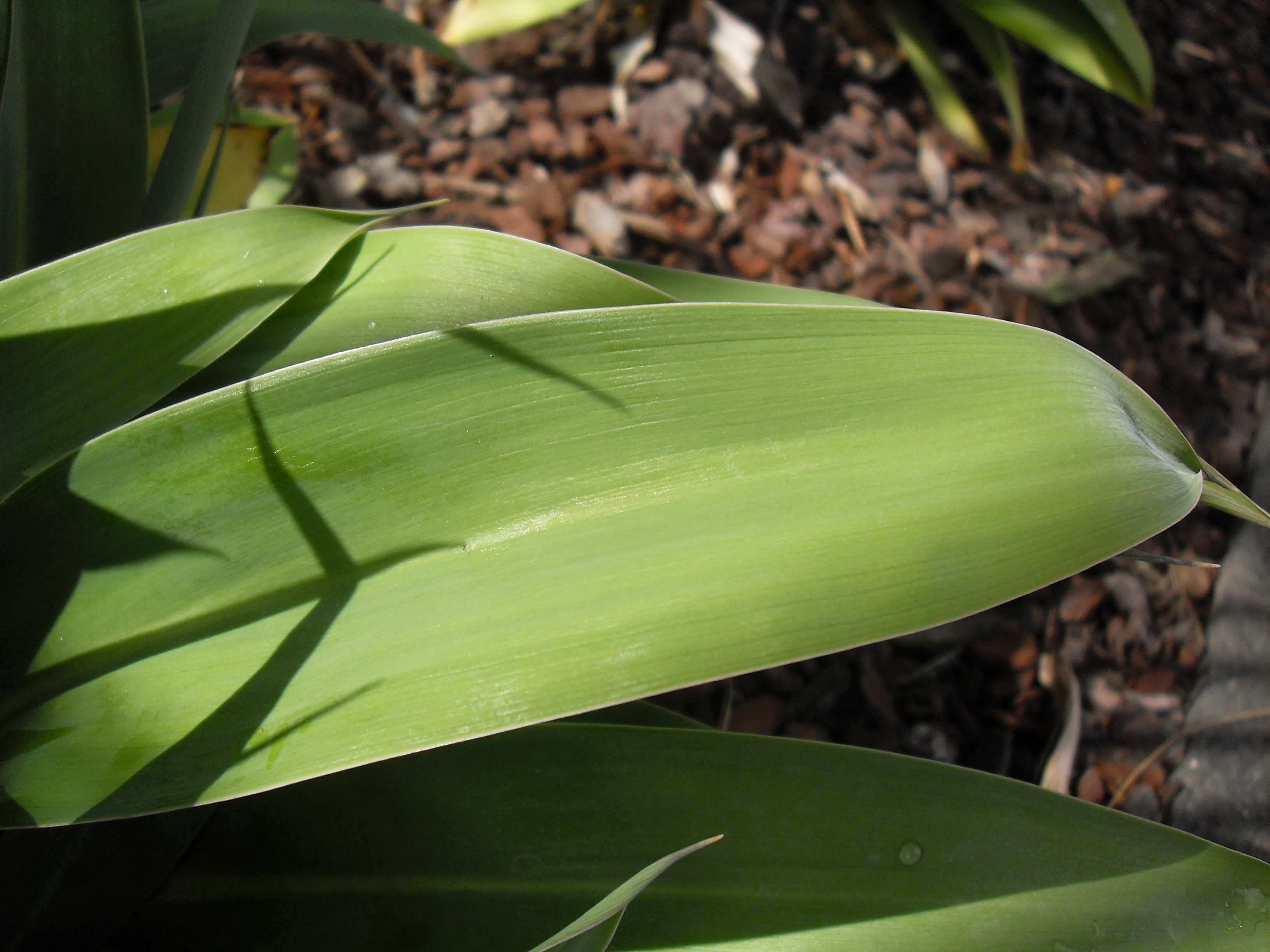 Leaves of Renga Renga Lily (Arthropodium cirratum)